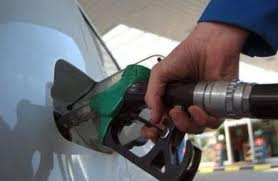 ndotja e ajrit